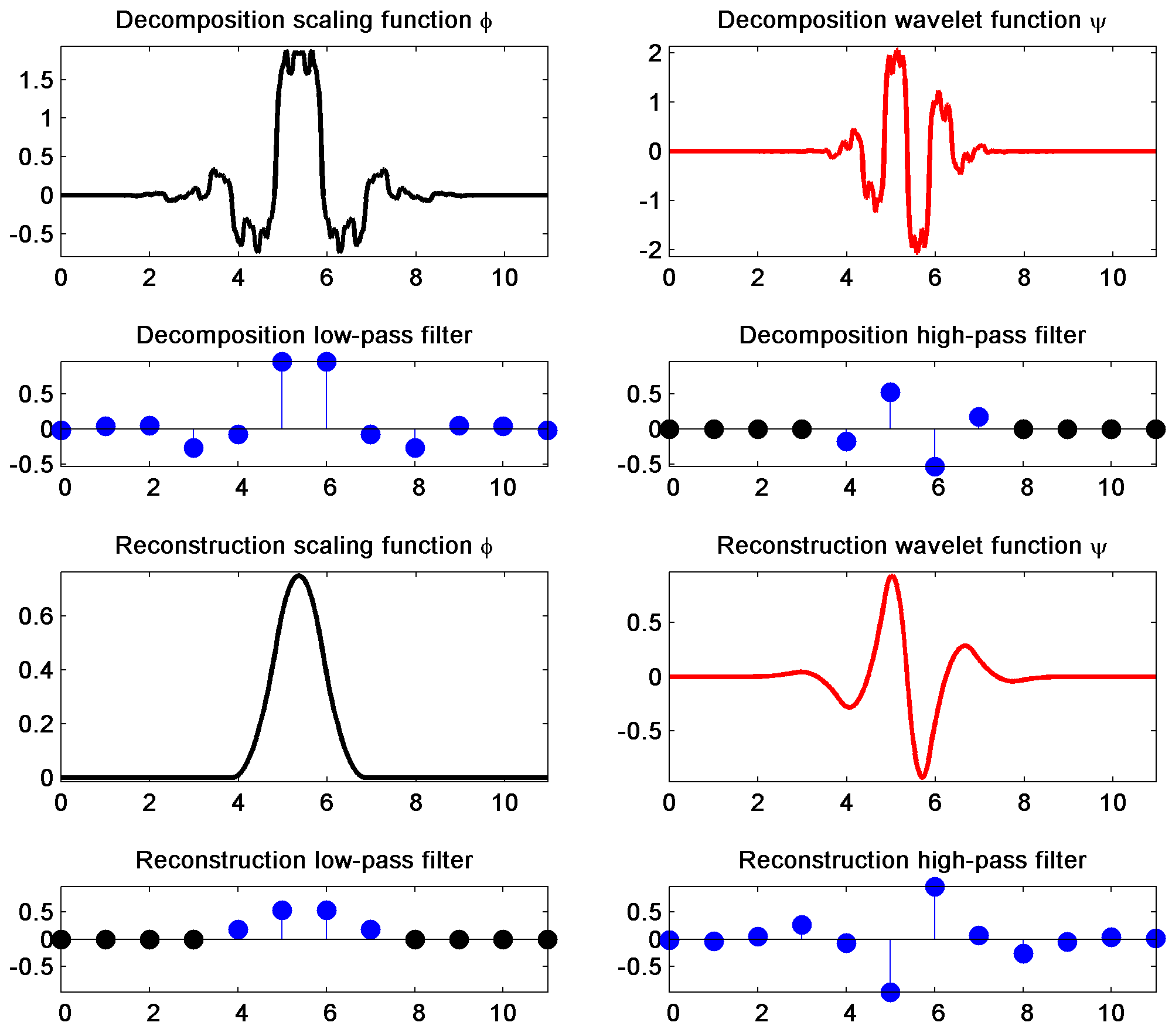 Wavelet Biorthogonal 3.5